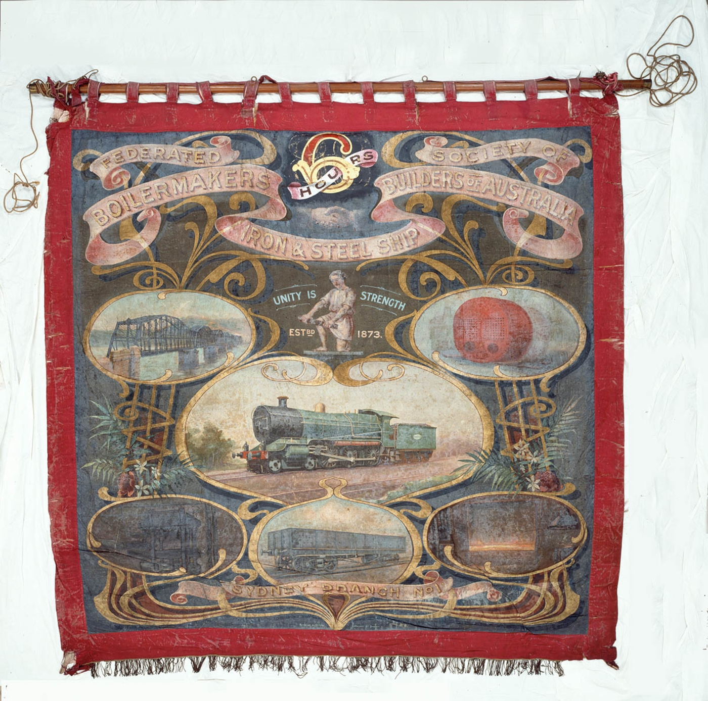 In the late nineteenth and early twentieth centuries, trade union banners were unfurled with pride in annual Eight Hour Day marches which advocated ‘Eight Hours Labour, Eight Hours Recreation and Eight Hours Rest’. This cloth banner is approximately 295 square cm and was created ca. 1913-1919.